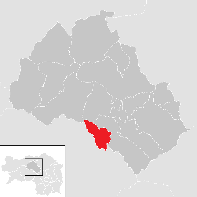 District Leoben